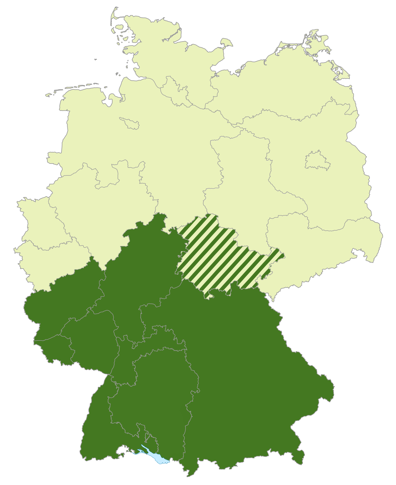 Germany's Regionalliga Süd (2000-2008) including football clubs from the states of Bayern, Hessen, Baden-Württemberg,, Thüringen, Rheinland-Pfalz and Saarland.